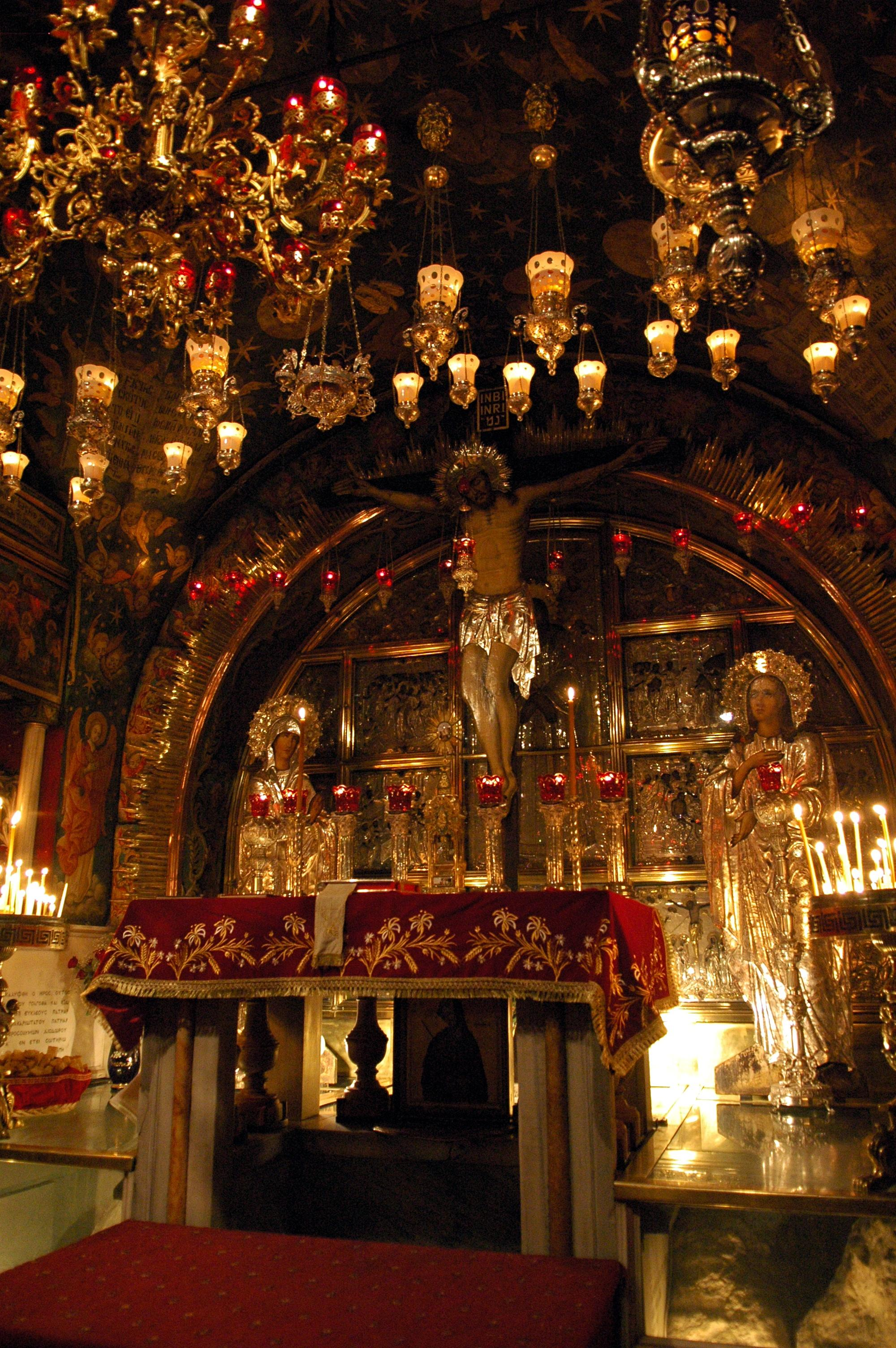 Church of the Holy Sepulchre. Golgotha (Calvary). Orthodox Crucifixion altar.